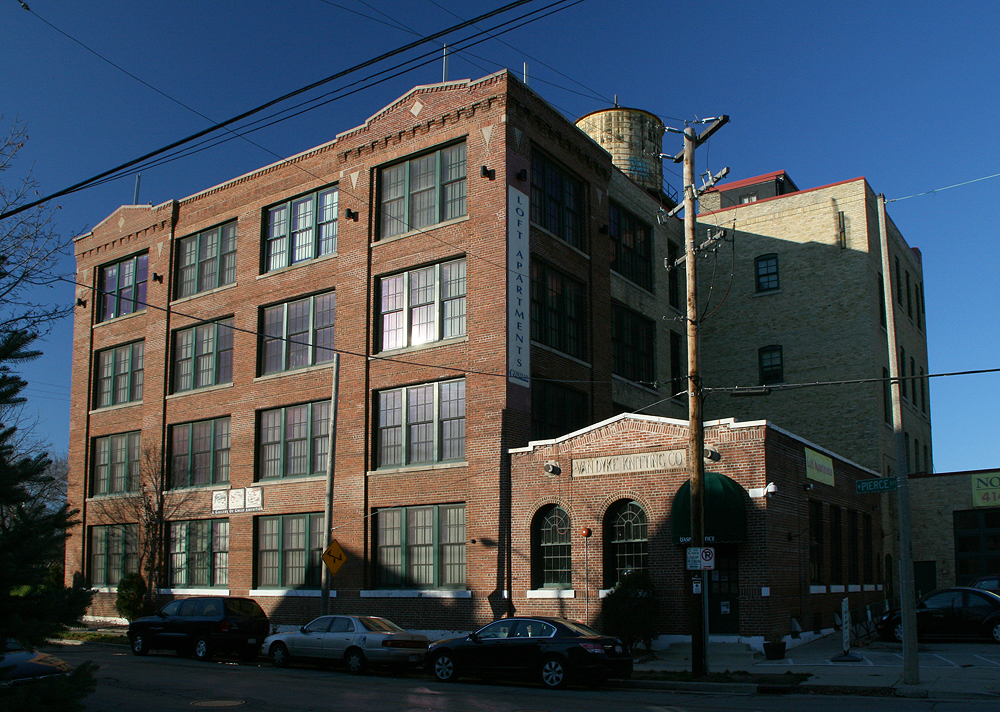 Goodwill Industries Building, National Register of Historic Places, Milwaukee Wisconsin. Previously Van Dyke Knitting Company. Currently residential property.